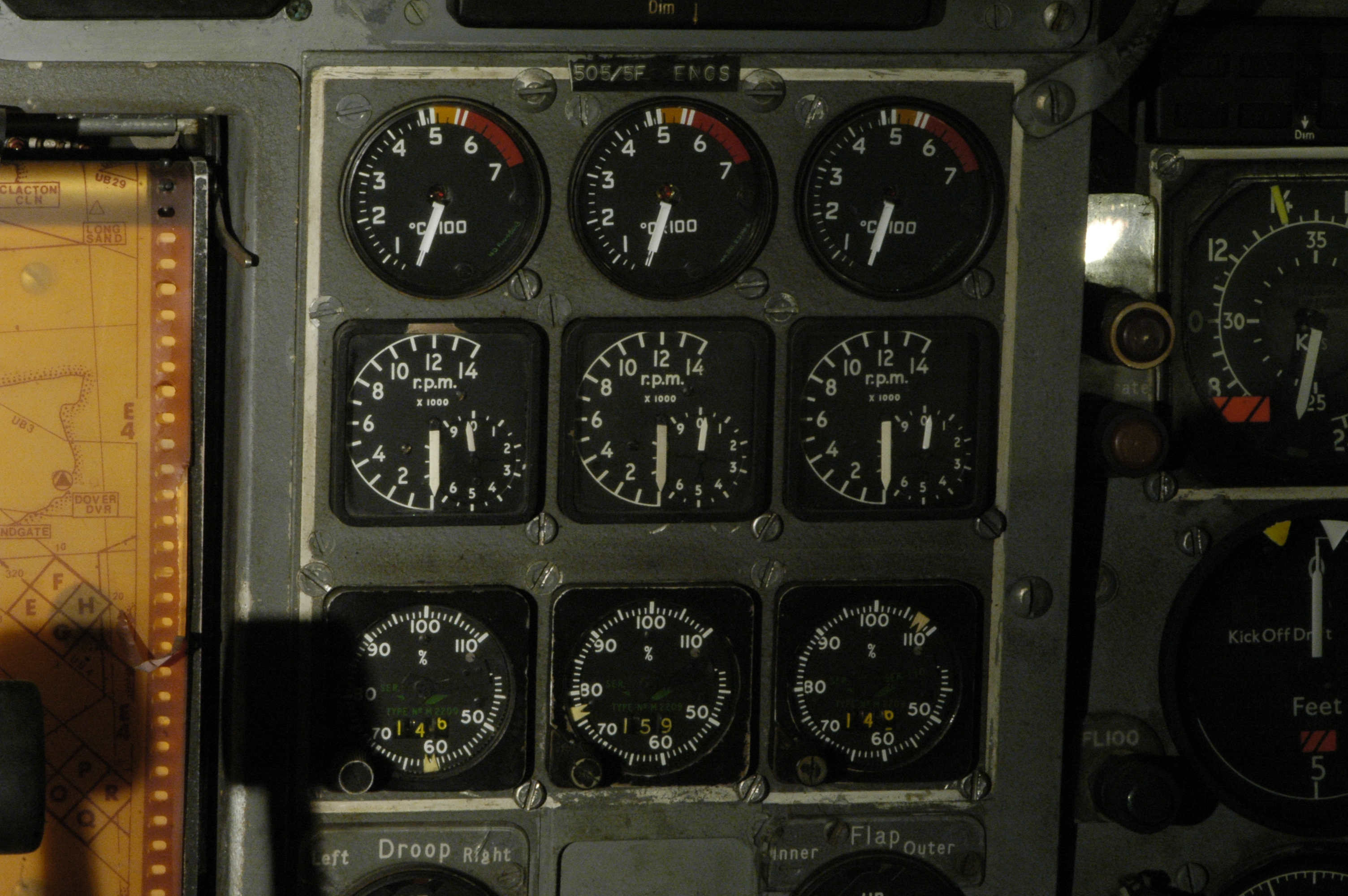 The engine instruments of the Hawker-Siddely Trident as well as several other instruments are visible in this photo. The aircraft itself is preserved (cockpit only) at the Scottish National Museum of Flight, East Fortune.